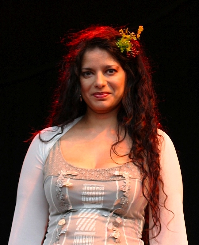 From Mark Bennett: This is an image from a couple of days ago at 'The Big Chill', a wondrous day full of the unexpected and beautiful. Unforgettable. Whilst I was working there 'The Imagined Village' played the main stage and stopped me in my tracks (from rushing about photographing all the stages ... like a madman, lol) ... here is the beautiful Sheila Chandra from that image set.